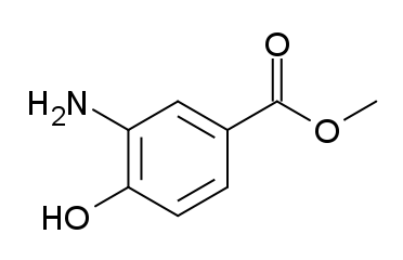 Structure of orthocaine